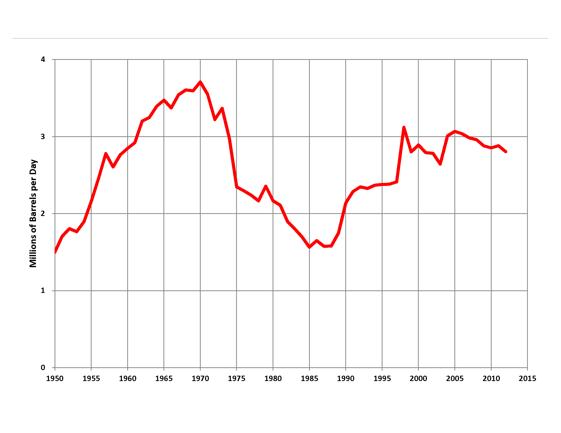 Venezuela production of crude oil, 1950-2012